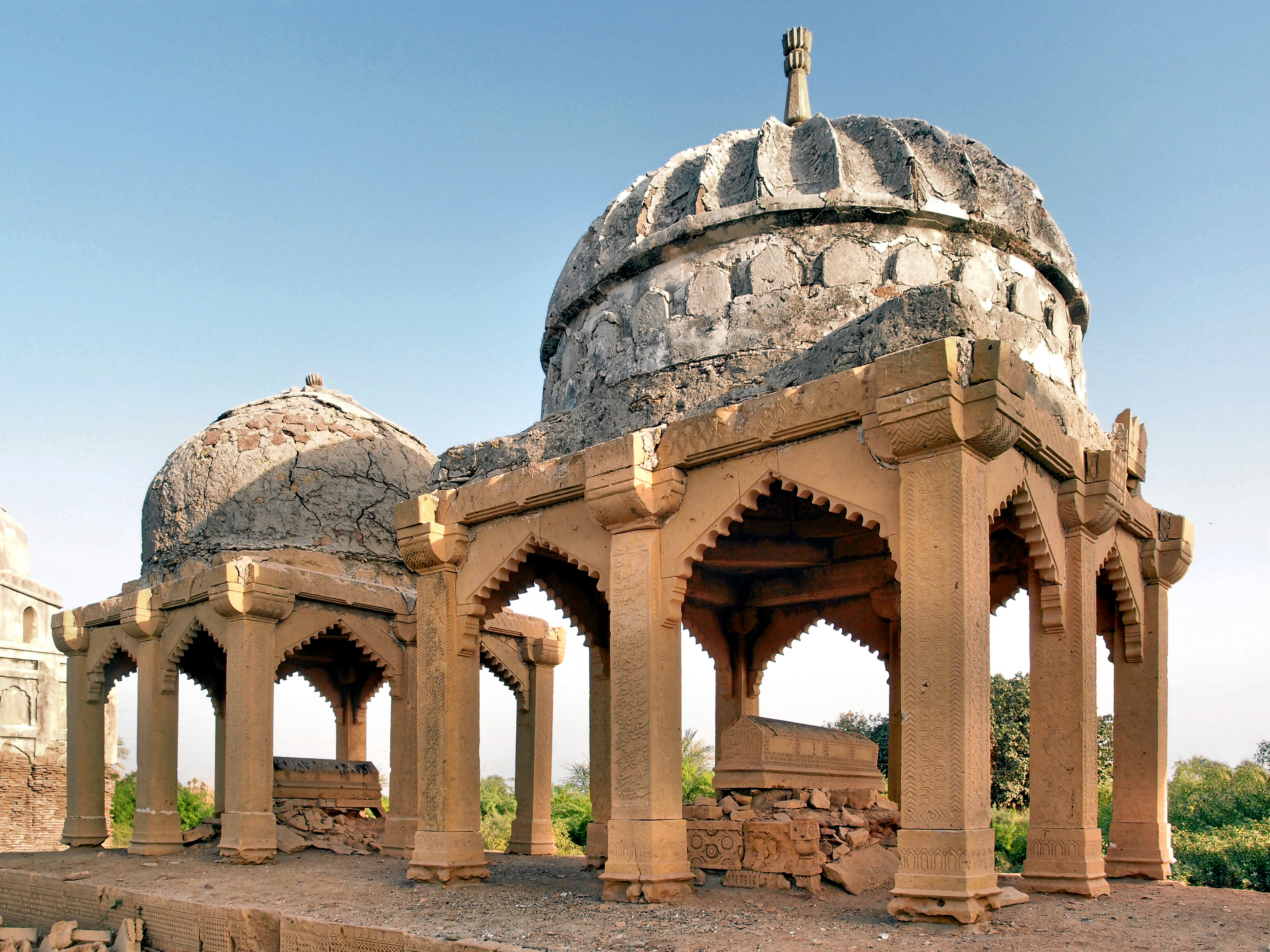 Canopy tombs at the Chitorri Graveyard near Pakistani city of Mirpur Khas. This historic ancestral graveyard of the Talpur Mirs of of Sindh. The sandstone tombs are the finest examples of Sindh's architecture prevalent in 17th and 18th century.